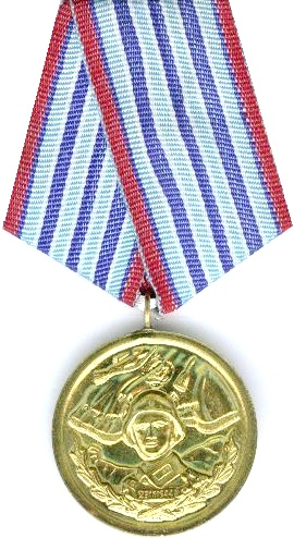 Medal For 10 Years Service To The Bulgarian People's Army.